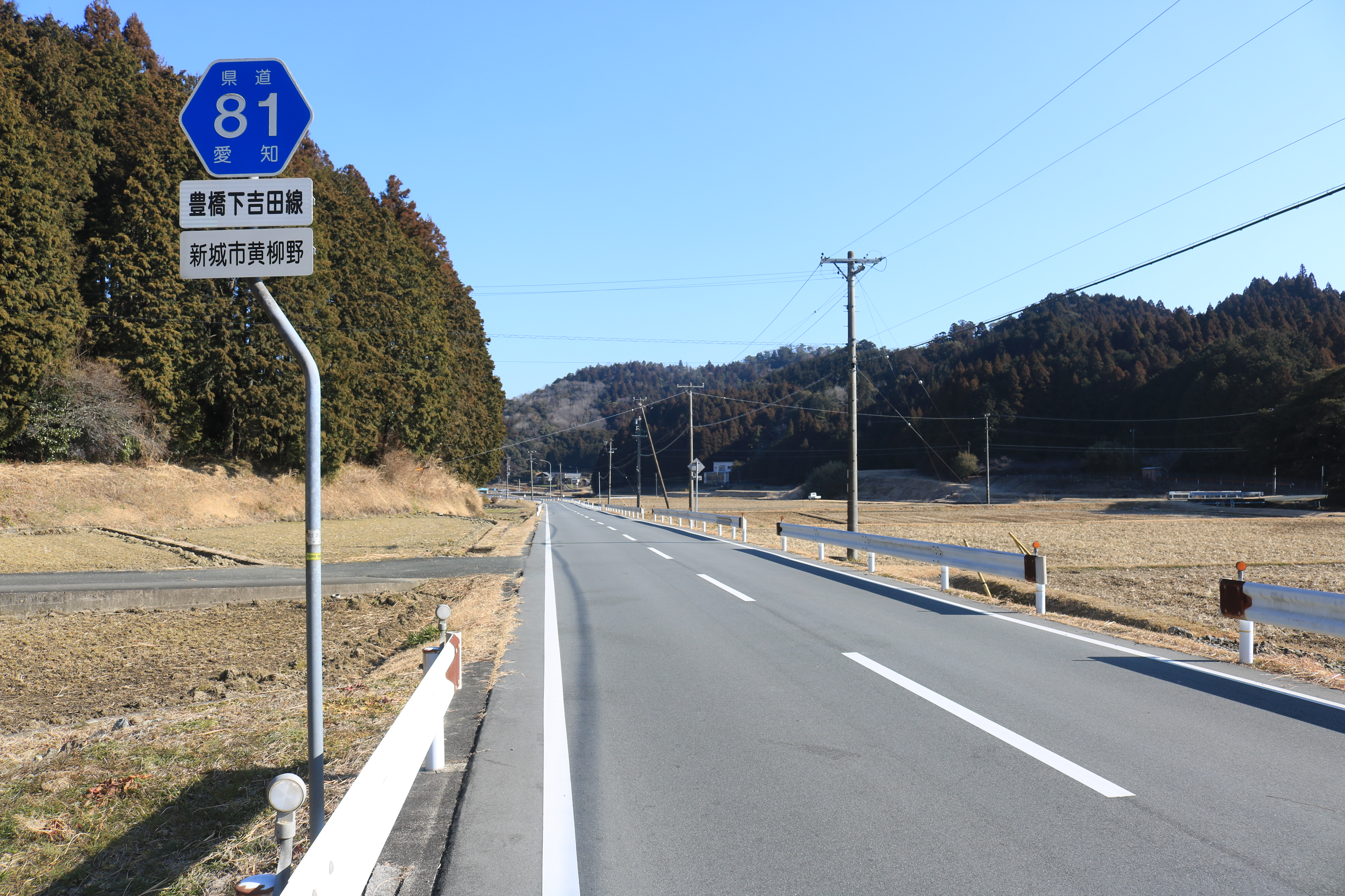 Aichi Prefectural Road Route 81 in Tsugeno, Shinshiro, Aichi Prefecture, Japan. Canon EOS Kiss X8i